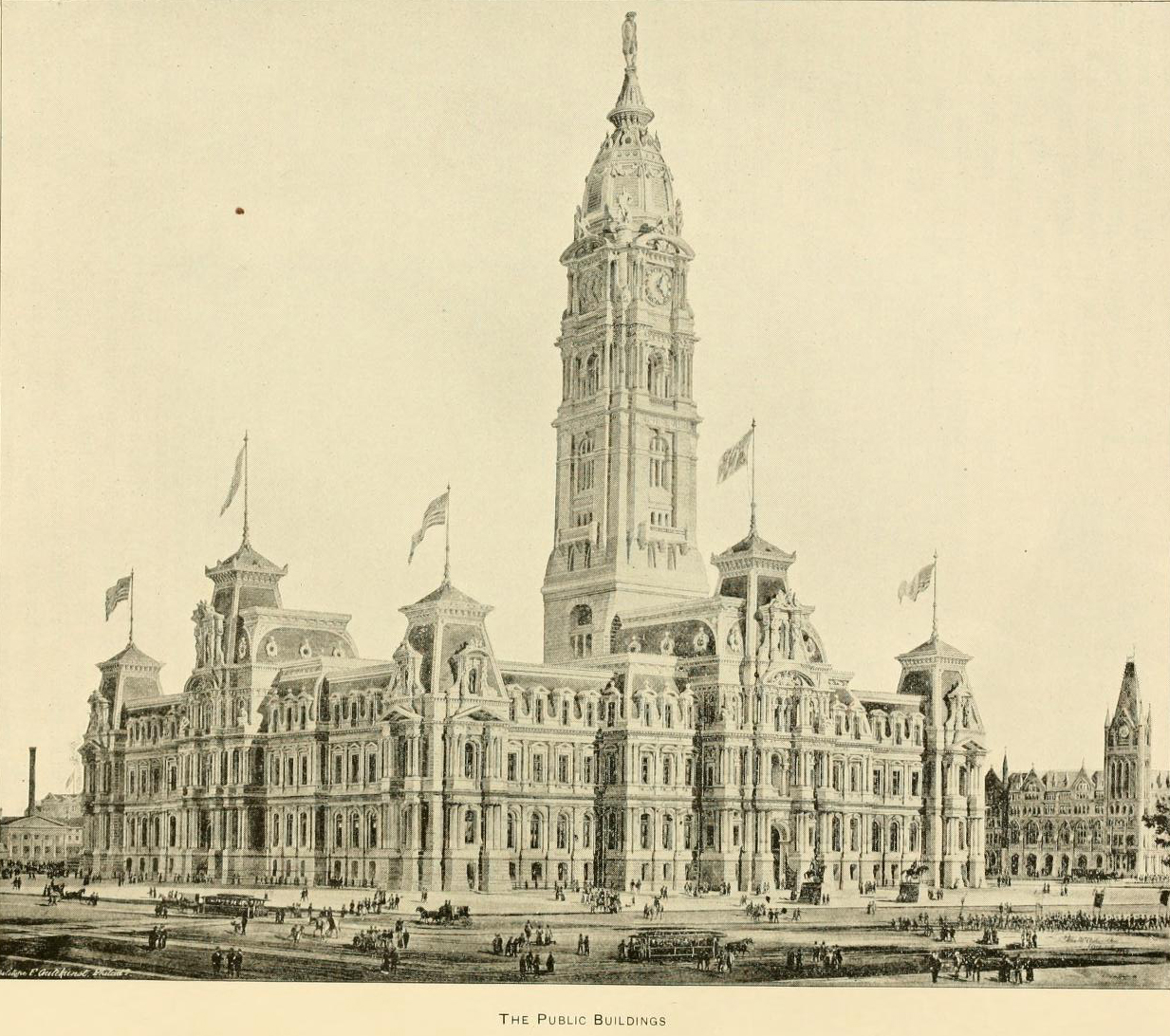 "The Public Buildings" (Philadelphia City Hall).